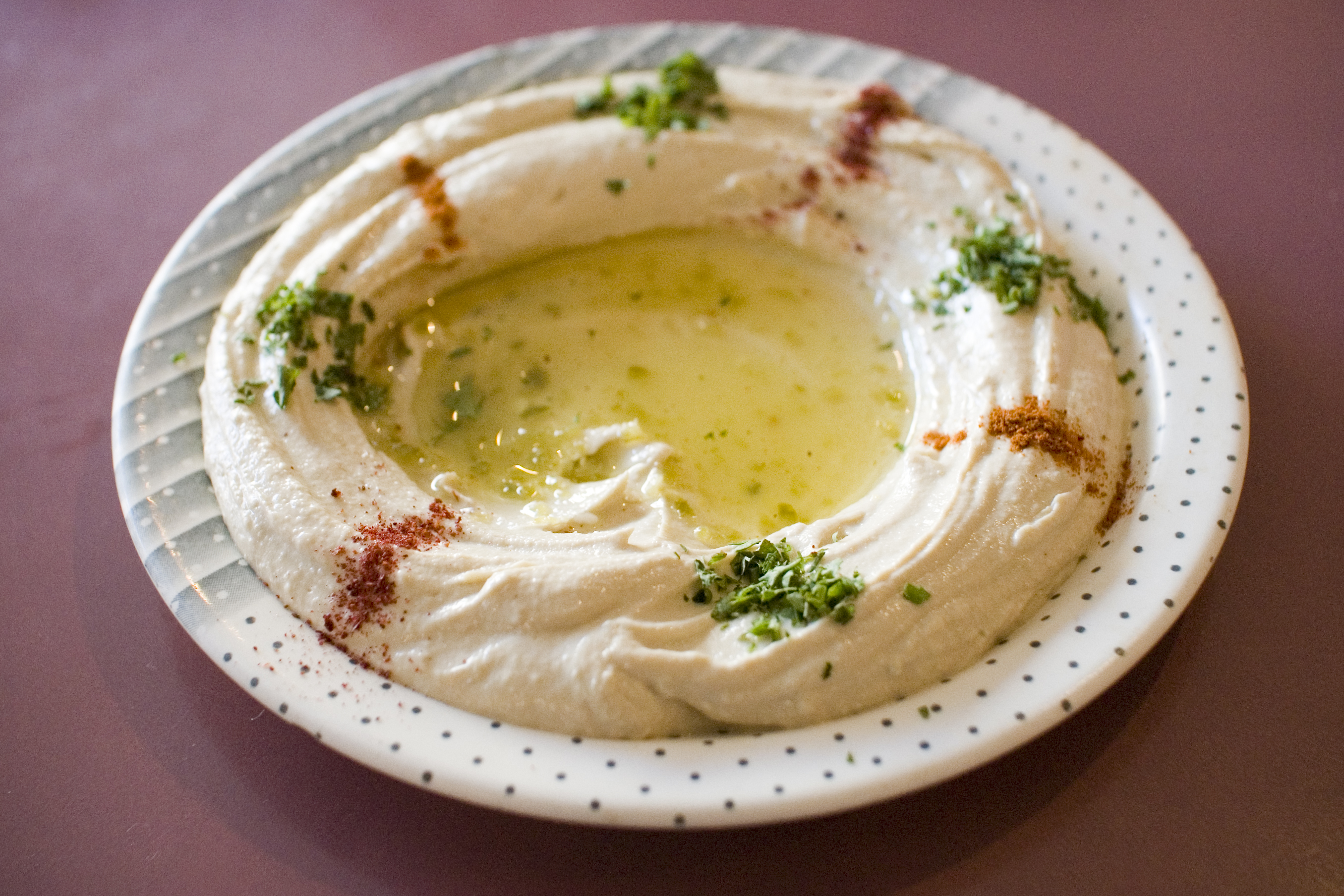 Hummus from The Nile restaurant, Chicago.